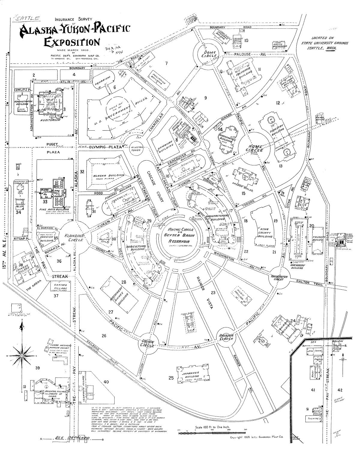 Map of the Alaska-Yukon-Pacific Exposition (the current University of Washington campus): Insurance Survey of Alaska-Yukon-Pacific Exposition